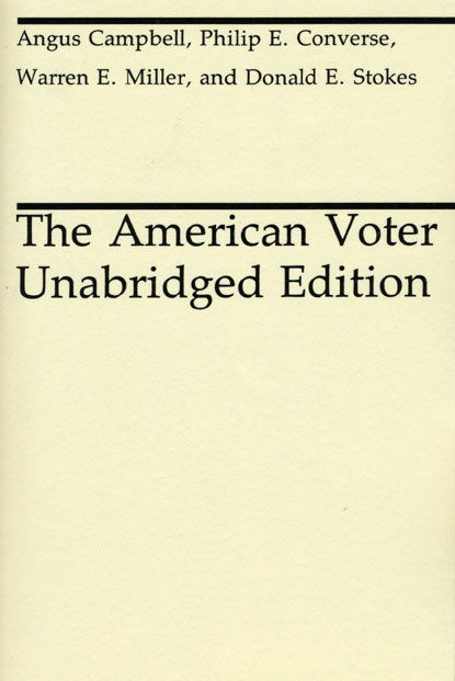 Book cover of “The American Voter” (1960) by Angus Campbell et al.